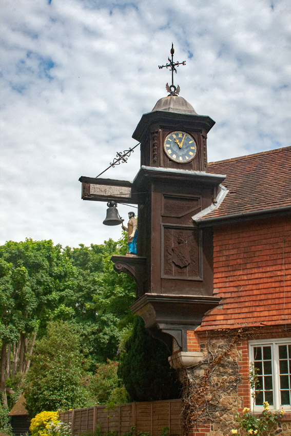 The clock with bell jack at Abinger Hammer, Surrey